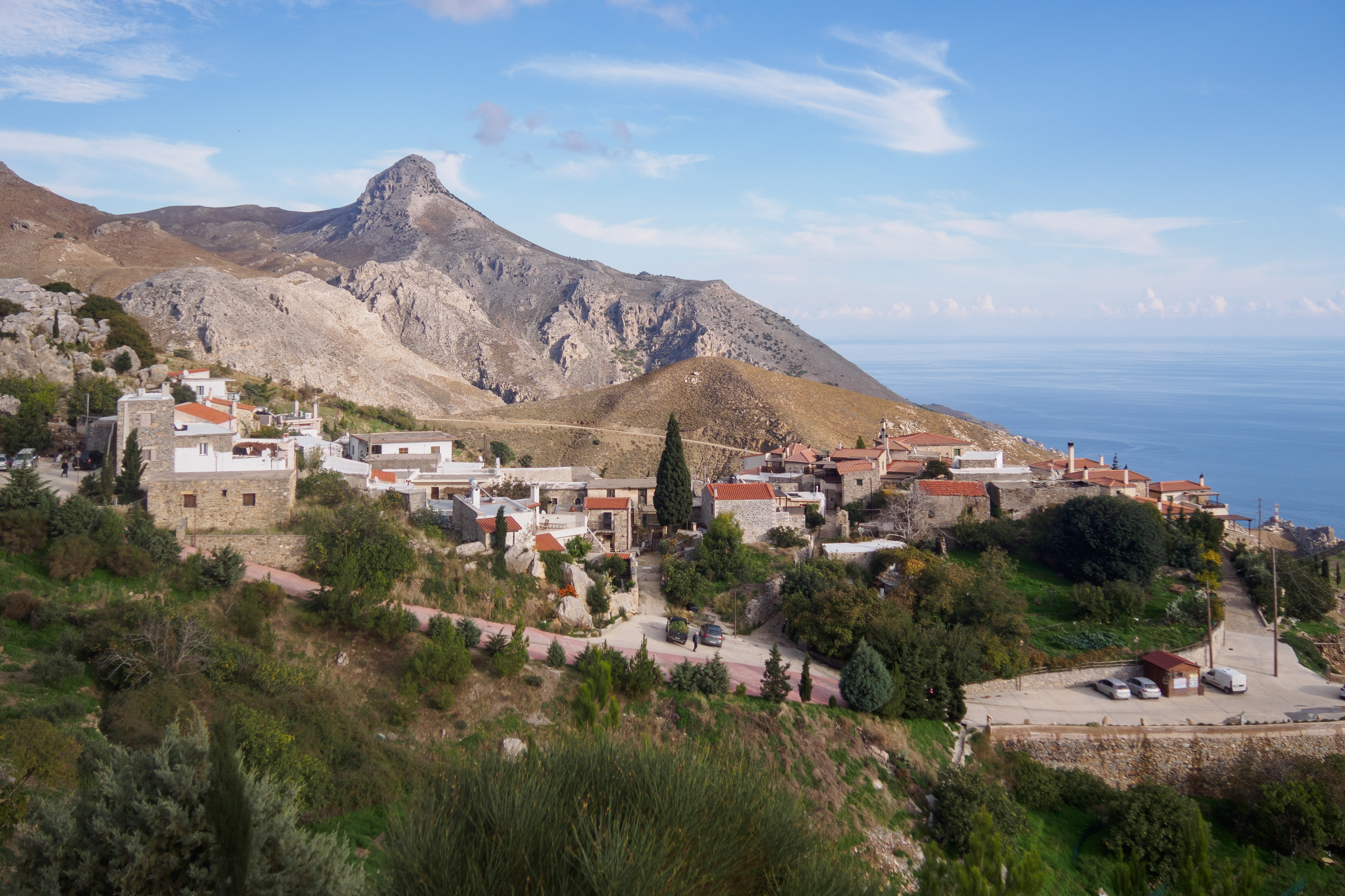 View of Kapetania, south Crete, with the peak of Kofinas at the background.